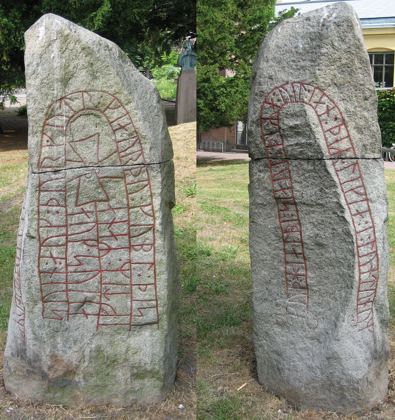 The Valleberga runestone (DR 337), Lund. Picture taken summer 2006. Pictures put together by me and published on wikipedia may 15th 2008.